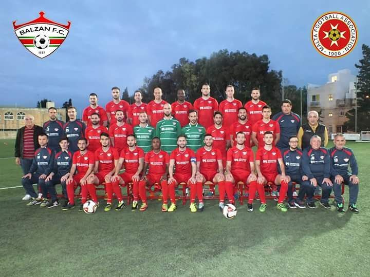 Balzan FC 1st team